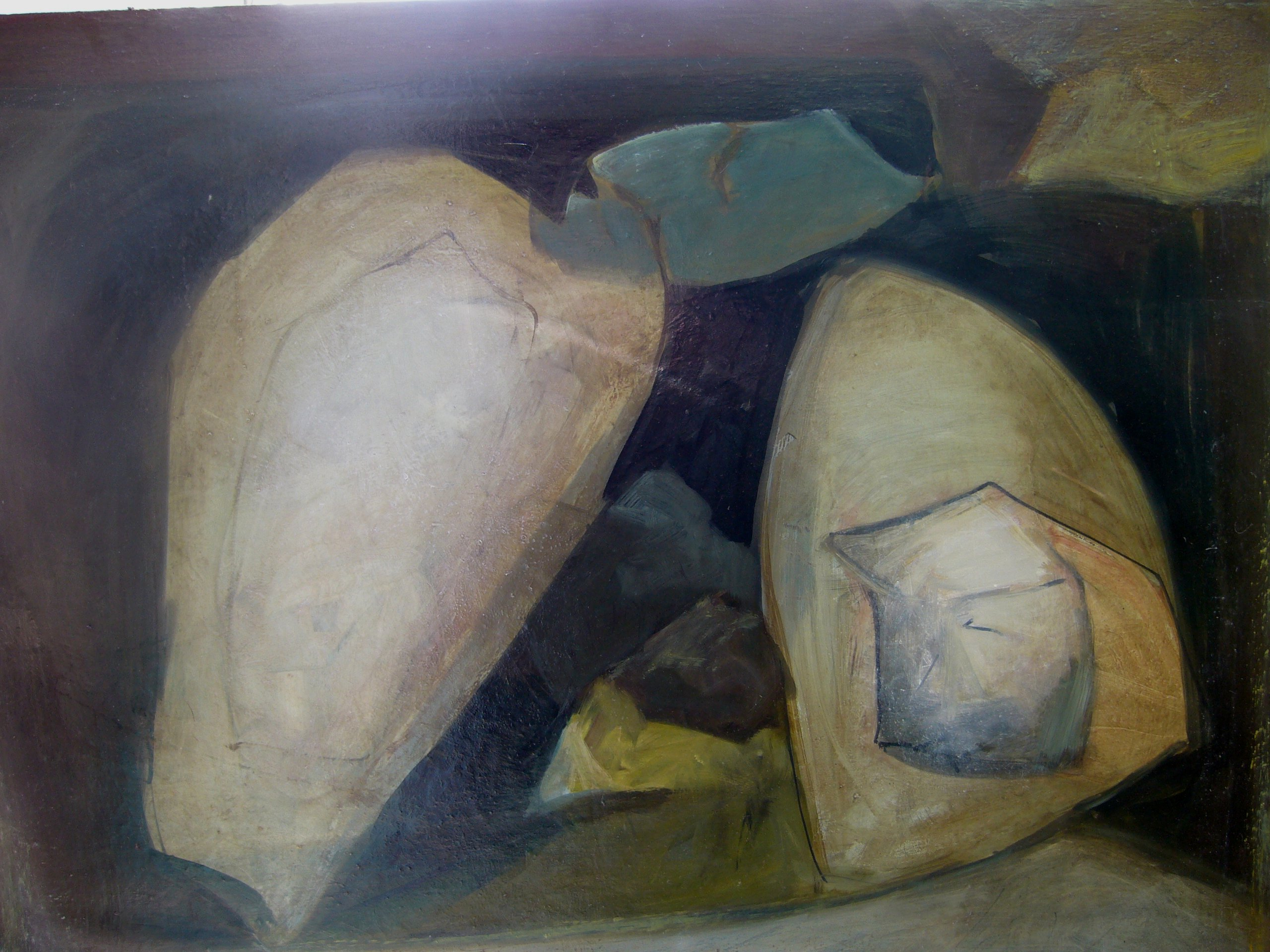 André Queffurus Work of Art